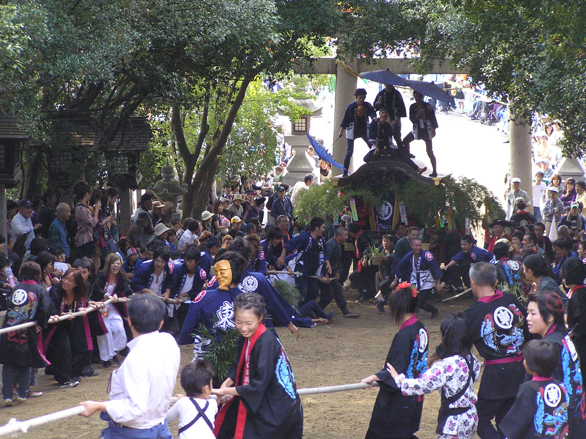 Danjiri that goes up in approach to a shrine